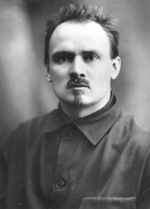 Image of Georgi Lomov (1888 - 1938), Soviet politician